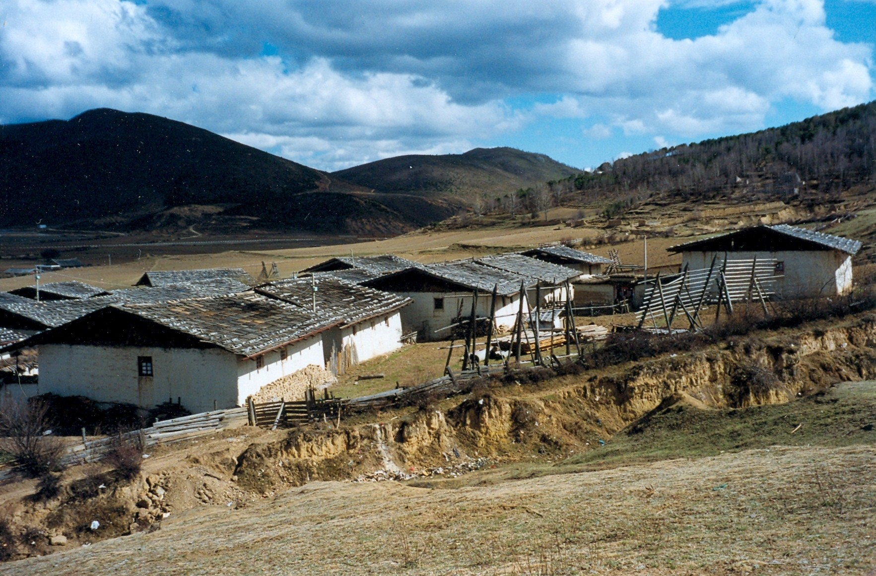 Tibetan houses in the outskirts of Zhongdian, Yunnan, China.